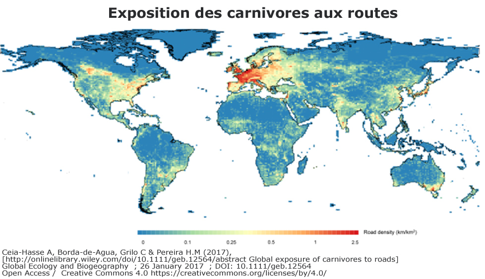 Global exposure of carnivores to roads : Road density (km km−2) per 100 km × 100 km grid cell. We intersected the global road network (Geofabrik) with the world map in 100 km × 100 km grid cells and then summed the road length in each grid cell. The scale represents 50 road density classes obtained using the Jenks natural breaks optimization method (QGIS Development Team).